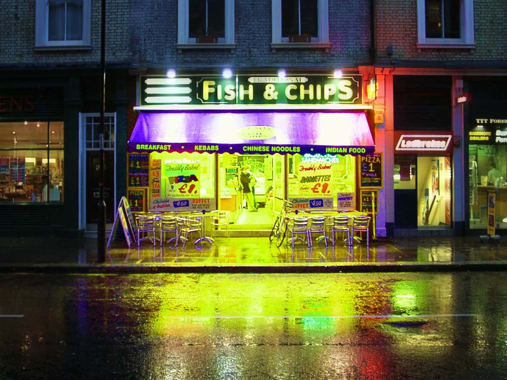 Fish and chips shop, 111 Gloucester Road, London SW7. As of 2014 this is the site of Felfela Restaurant.